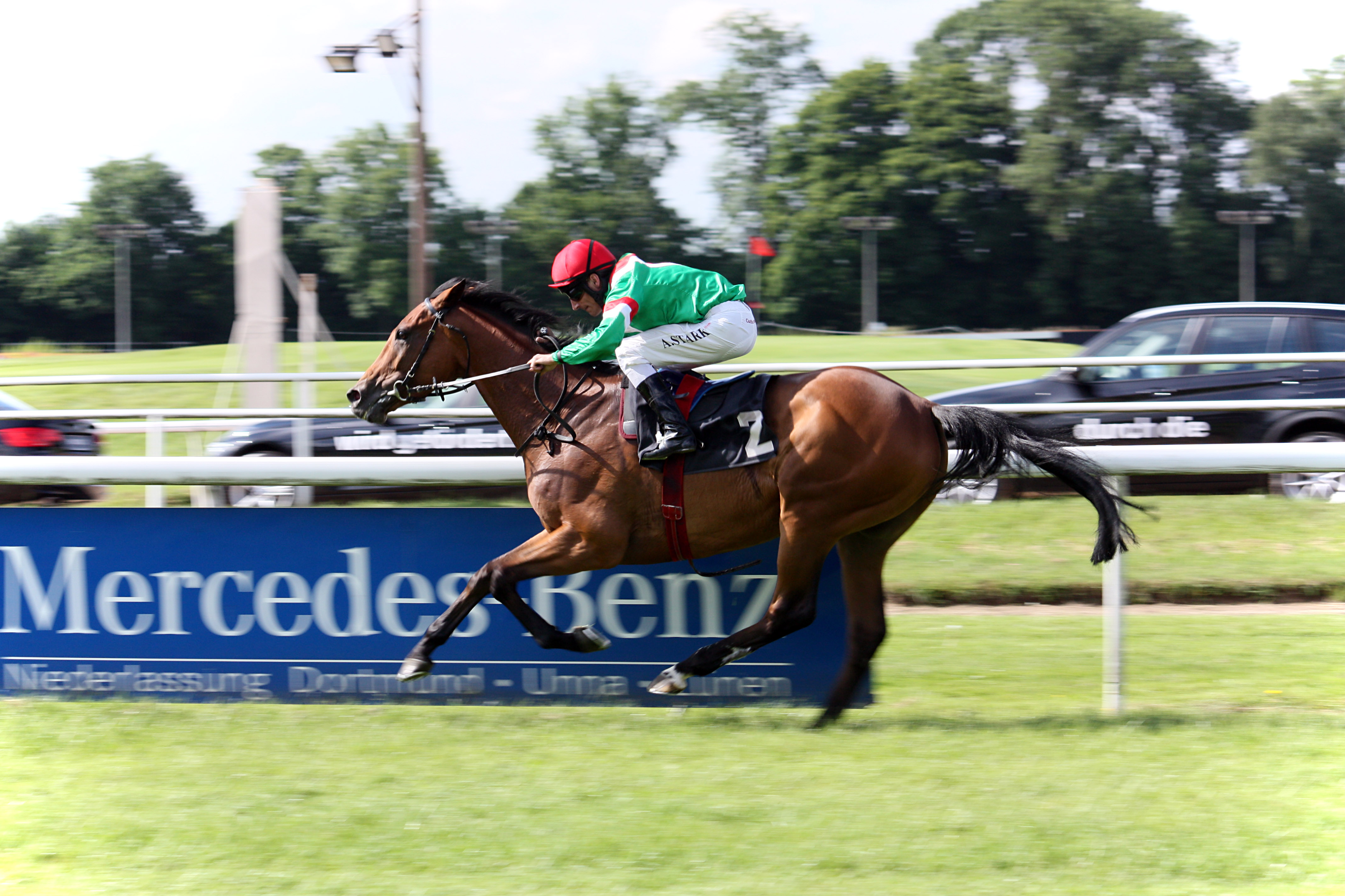 Andrasch Starke in Dortmund